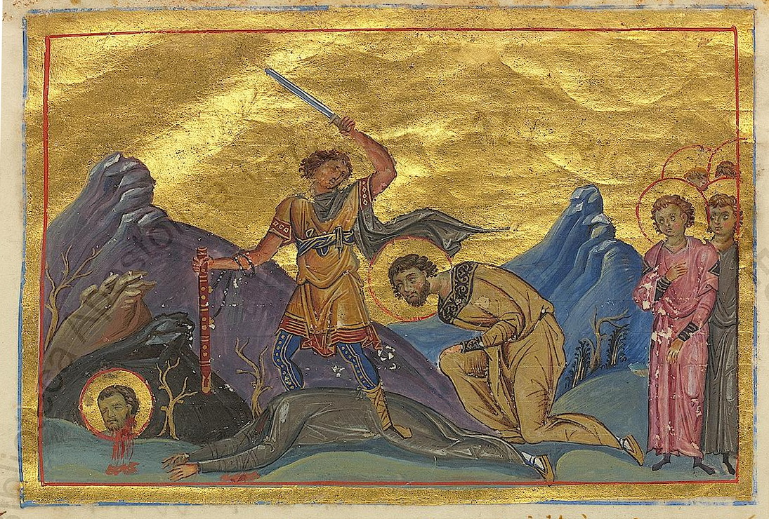 49 Martyrs with Callistratus These holy martyrs suffered at Carthage with St Callistratus at the beginning of the fourth century. St Callistratus was miraculously saved after his tormentors had tied him up in a sack and cast him into the sea. By God’s mercy, however, the sack struck a sharp rock and was torn open. St Callistratus came to dry land unharmed, carried by dolphins. Viewing such a miracle, forty-nine soldiers came to believe in Christ. Then the military commander threw St Callistratus and the believing soldiers into prison. Before this, all of them were subjected to innumerable floggings. Константинополь. 985 г. Миниатюра Минология Василия II. Ватиканская библиотека. Рим.